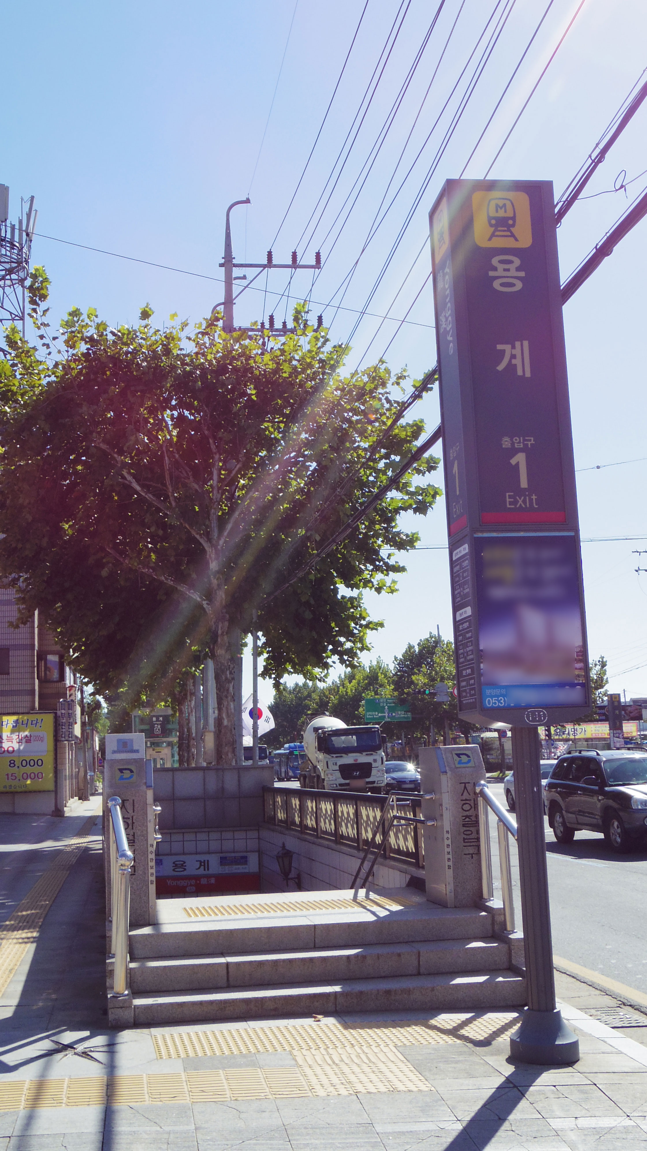 The entrance no.1 of Yonggye Station on the Daegu Metro Line 1